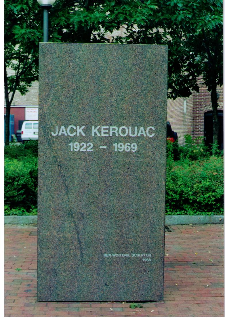 Memorial stone of the author Jack Kerouac in the city of Lowell, Mass. (USA)